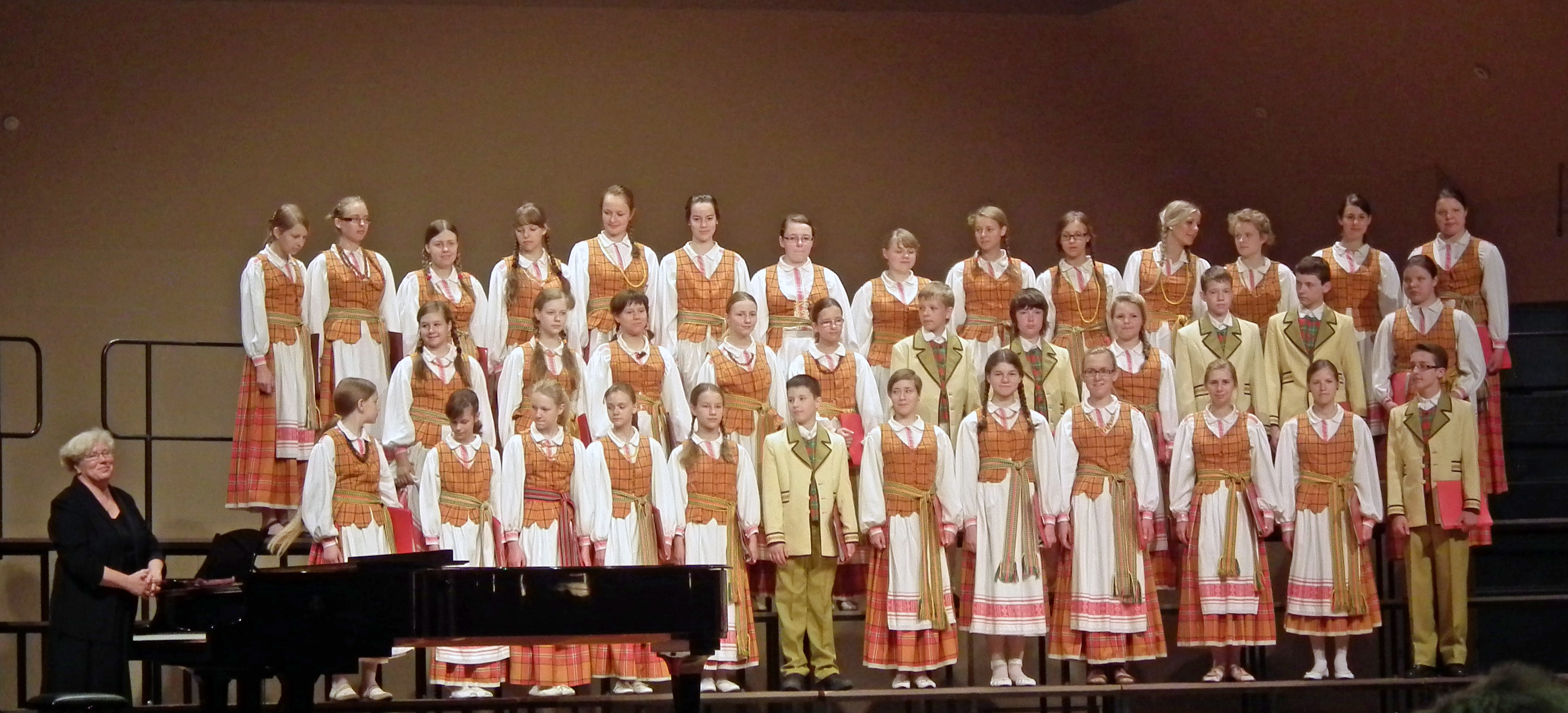 LRT Children's Chorus